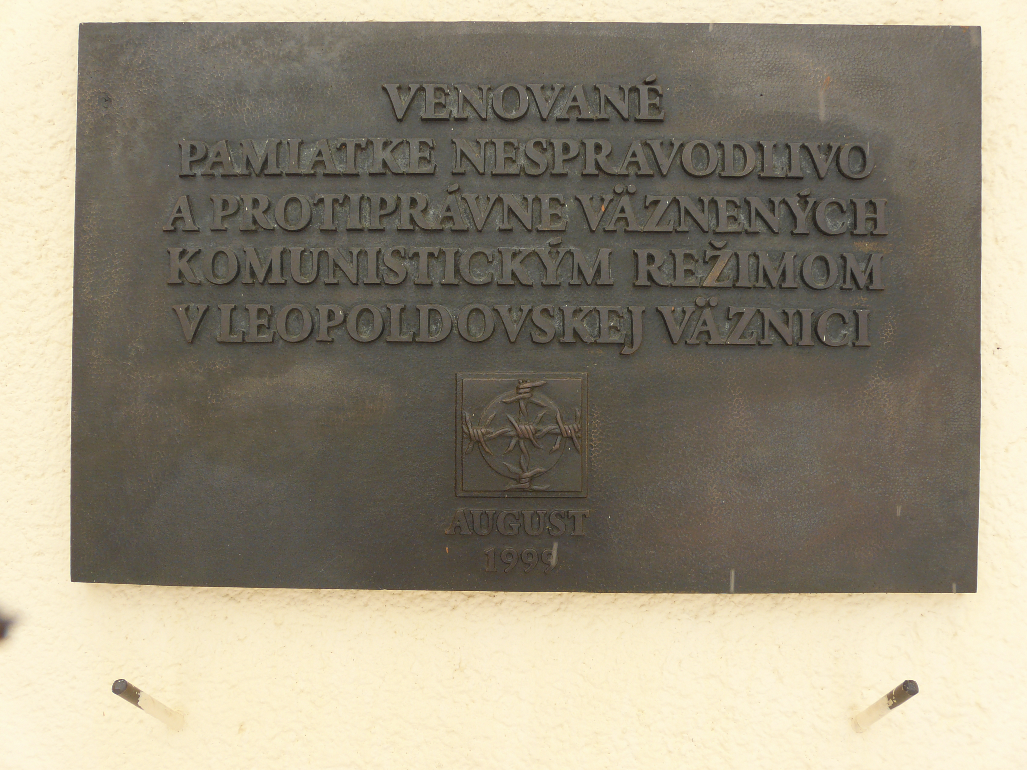 A memory on Lopoldov Prison dedicated to inequitely and unfairly encaged from 1999.